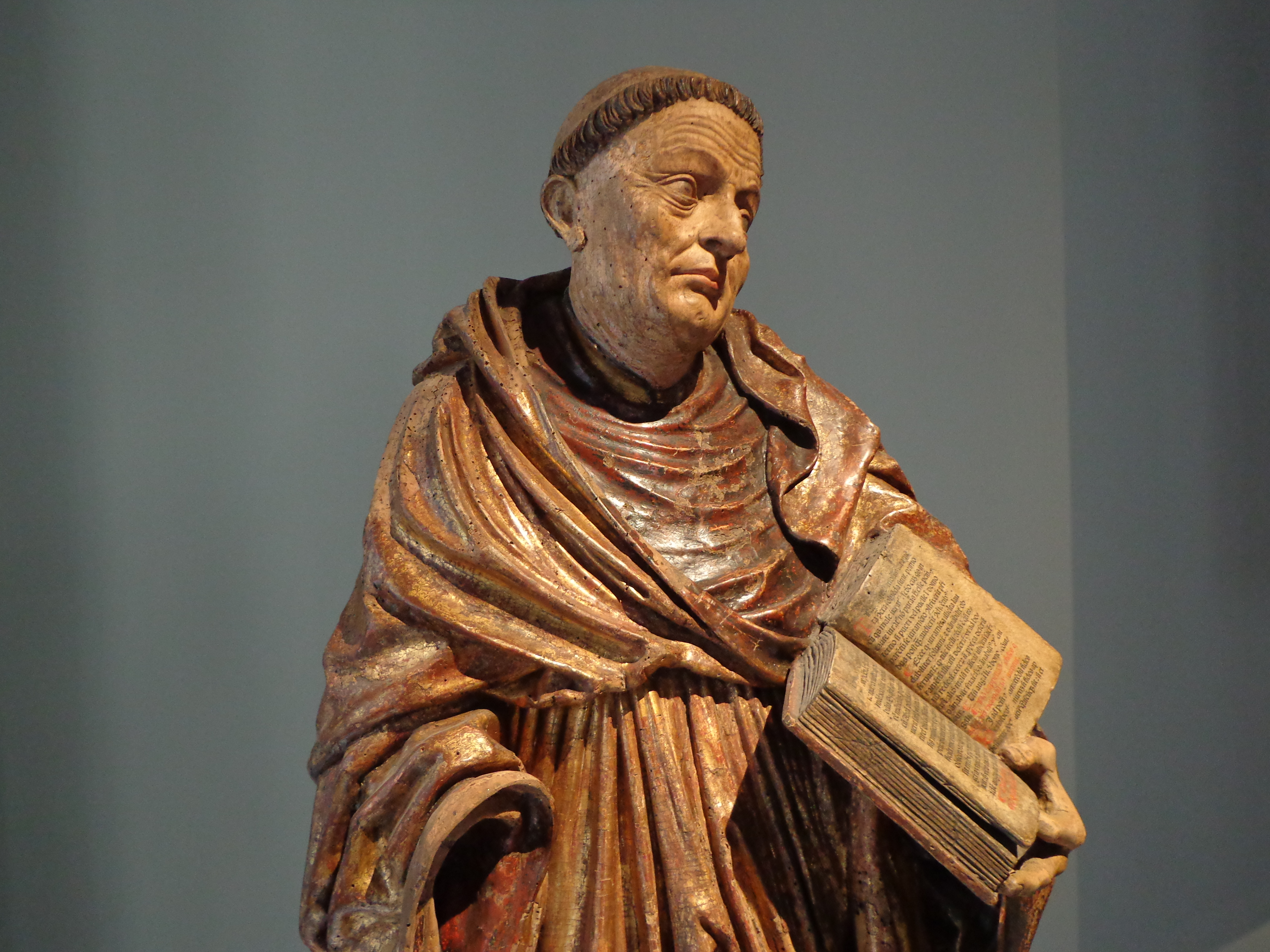 1520s statue by Hans Wydyz